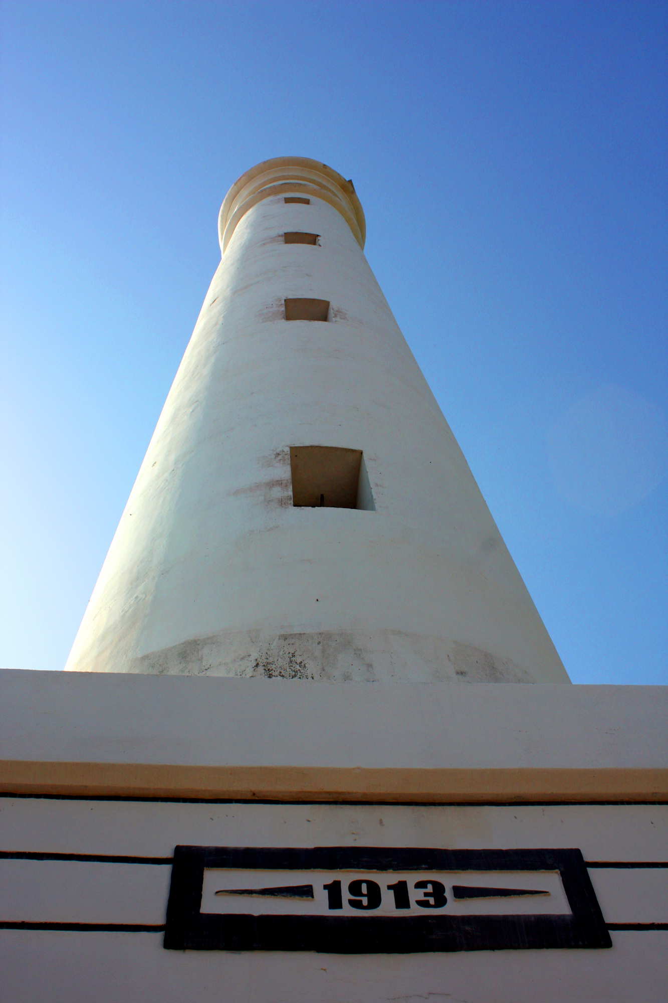 Lighthouse - Batticaloa, Sri Lanka